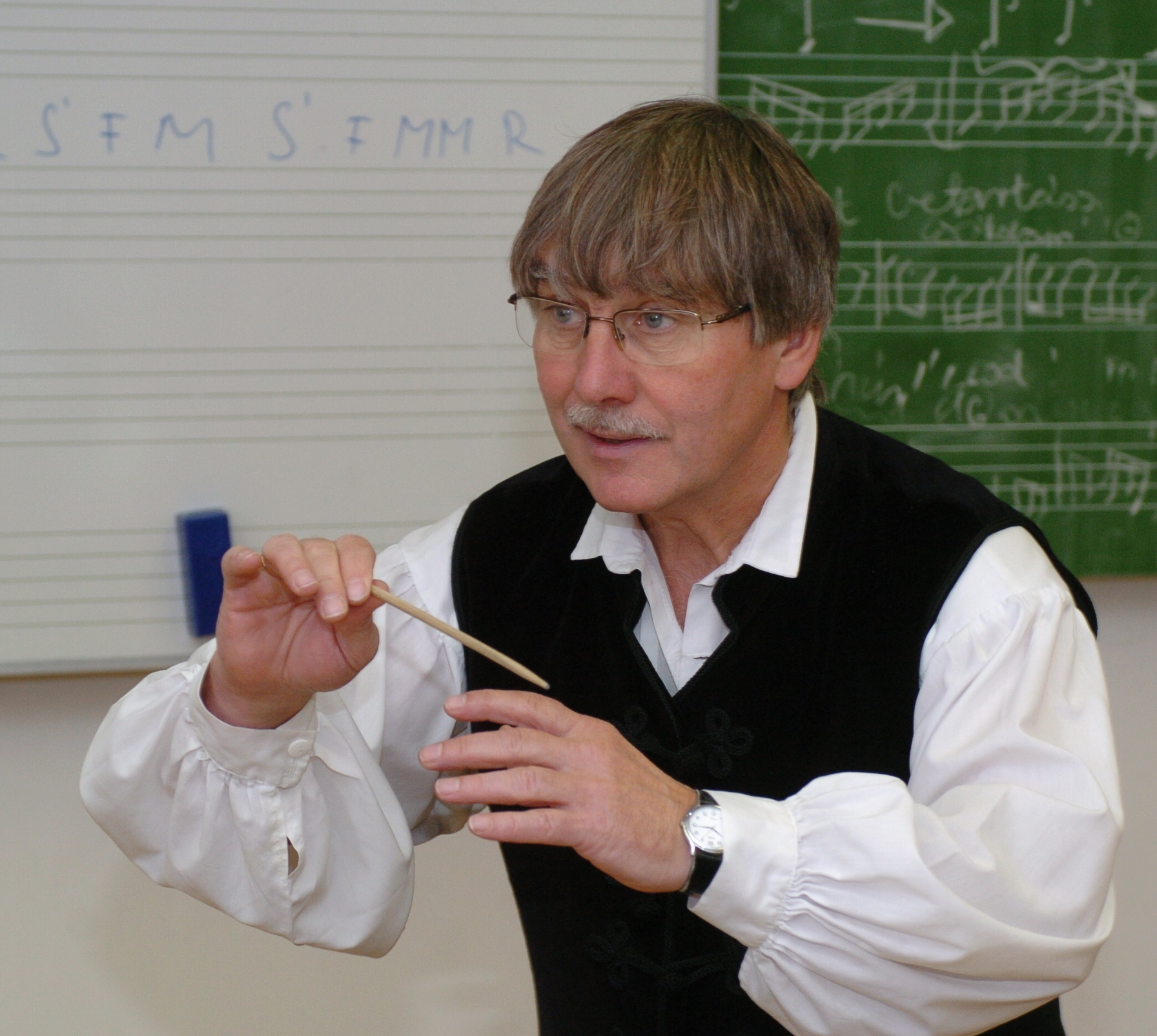 Denes Szabo choirmaster, Hungary